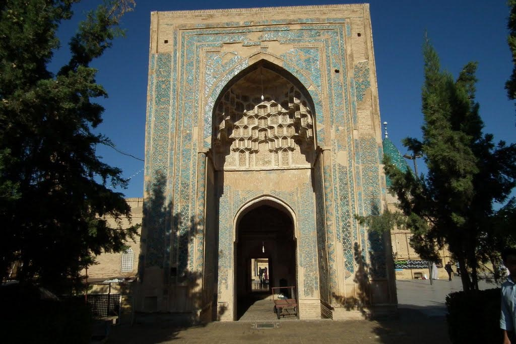 Entrance of shrine of Bayazid Bastami, Iranian famous sufi.